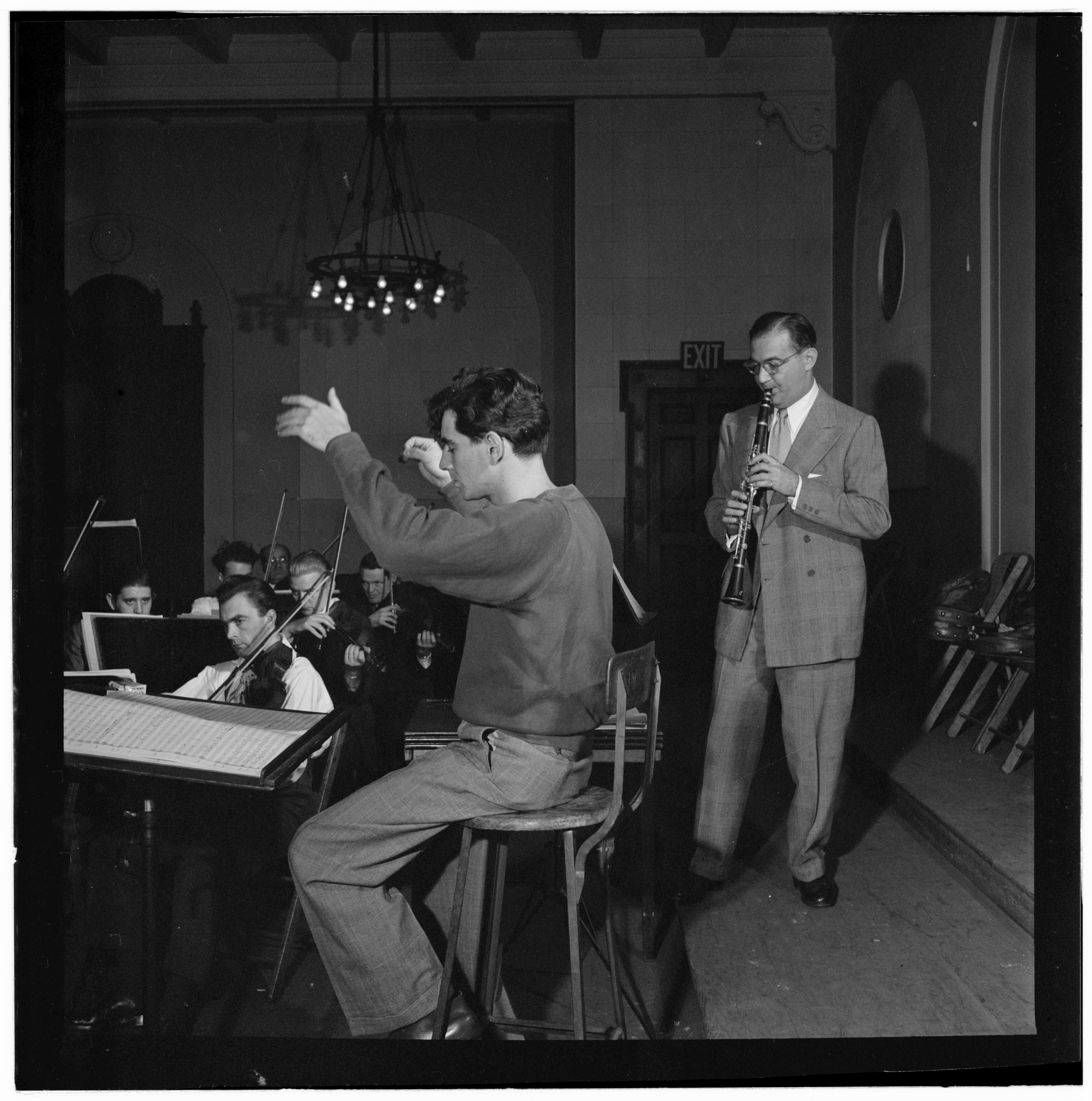 Leonard Bernstein, Benny Goodman, and Max Hollander, Carnegie Hall, New York, between 1946 and 1948